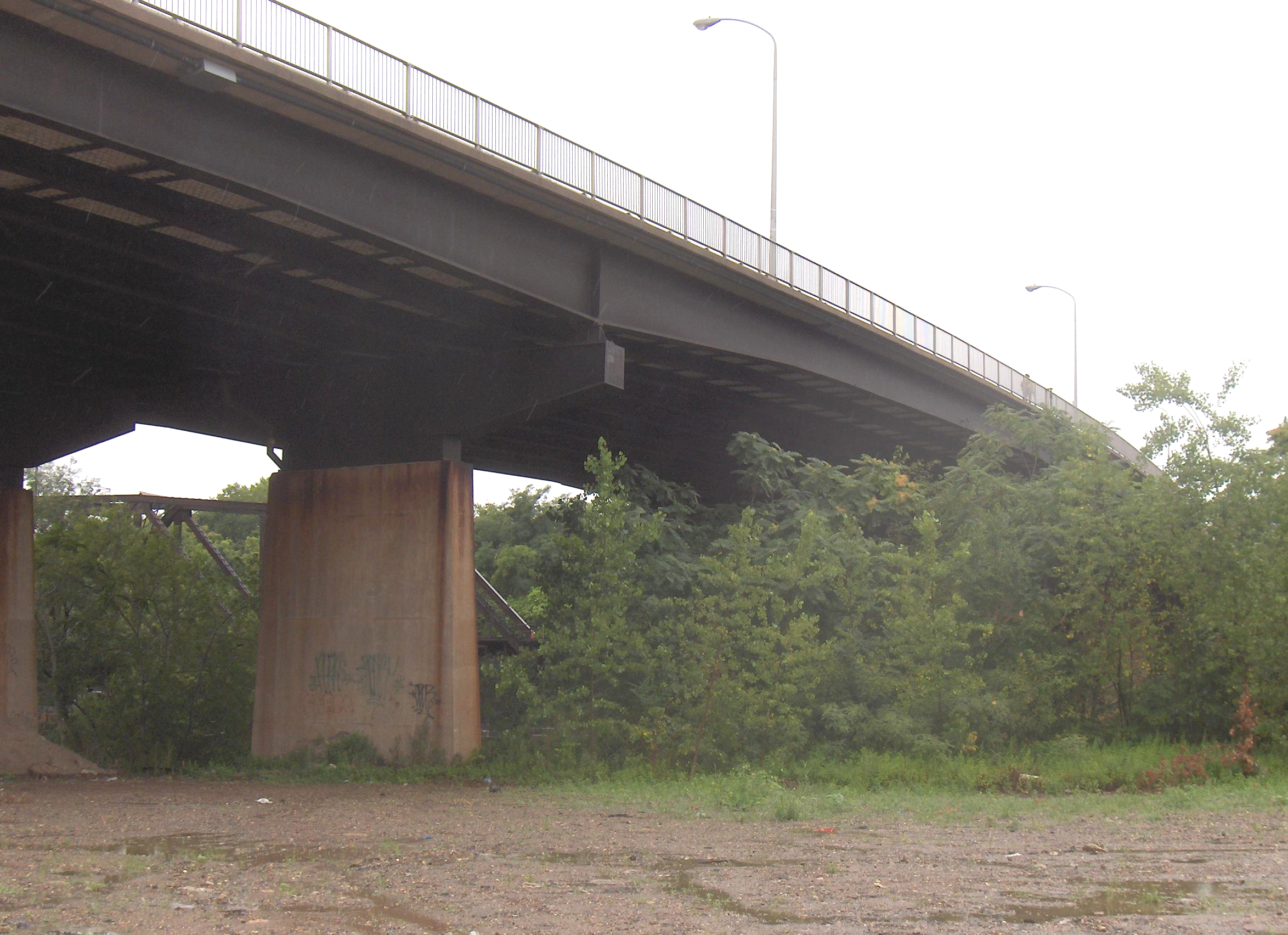 Modern Grays Ferry Avenue Bridge across the Schuylkill River in the Grays Ferry neighborhood in Philadelphia, Pennsylvania